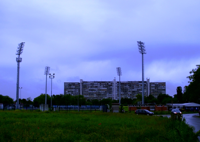 Residential skyscraper Super Andrija